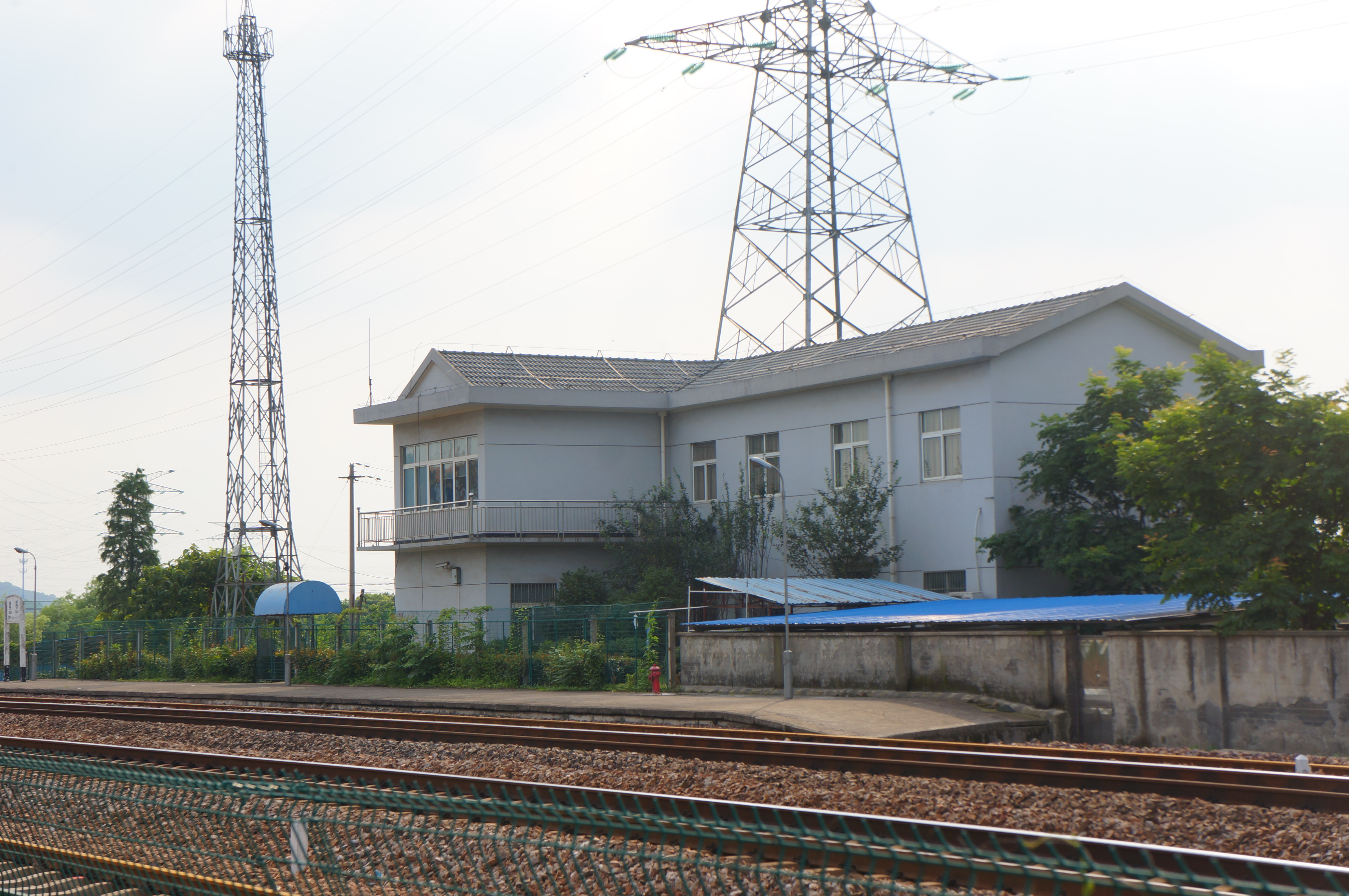 201607 Station Building of Xingqiao Station